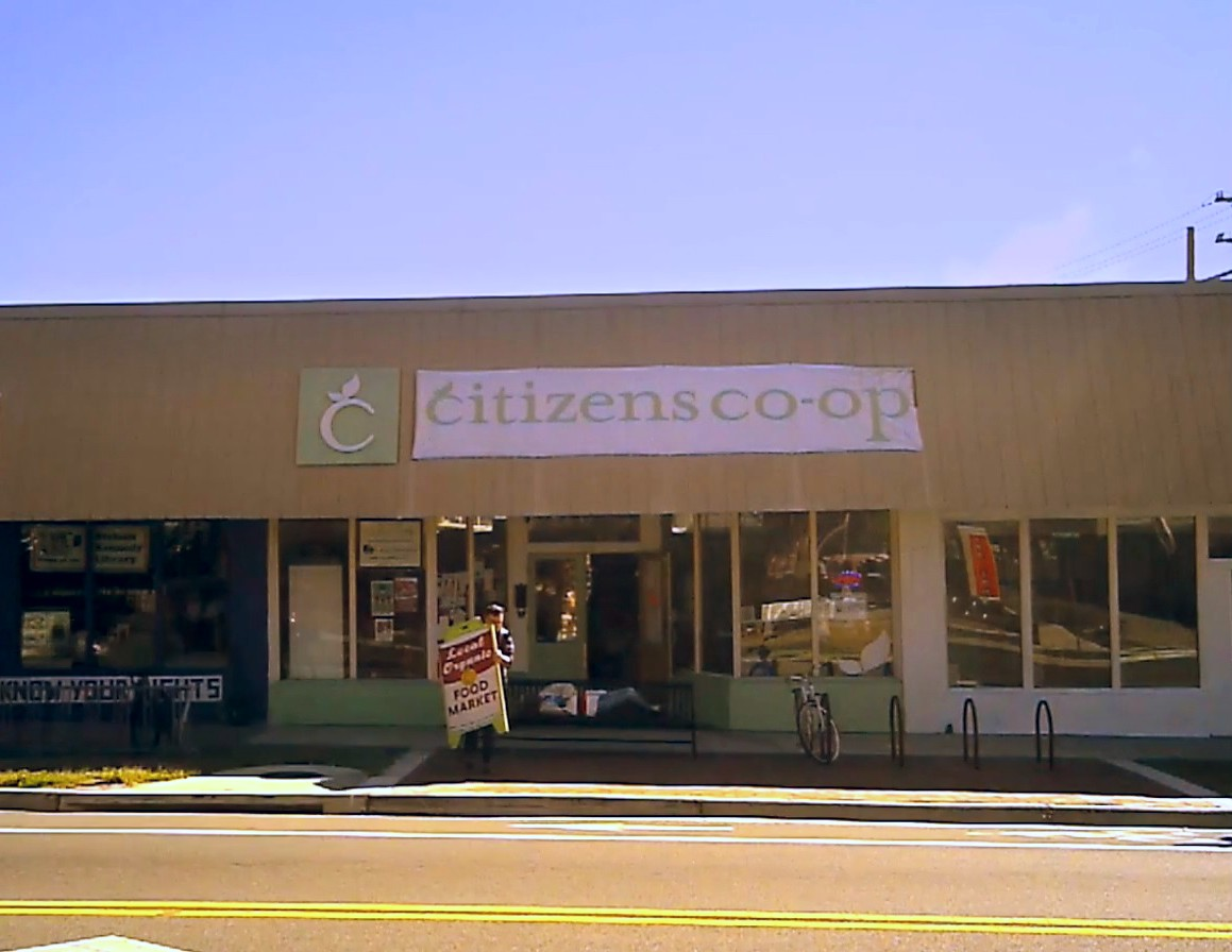 Title: Main and 5th CLIP. This frame from the video shows Civic Media Center and Citizens Co-op in Gainesville, Florida. Original time stamp is 02/26/2016 at 10:07:04.